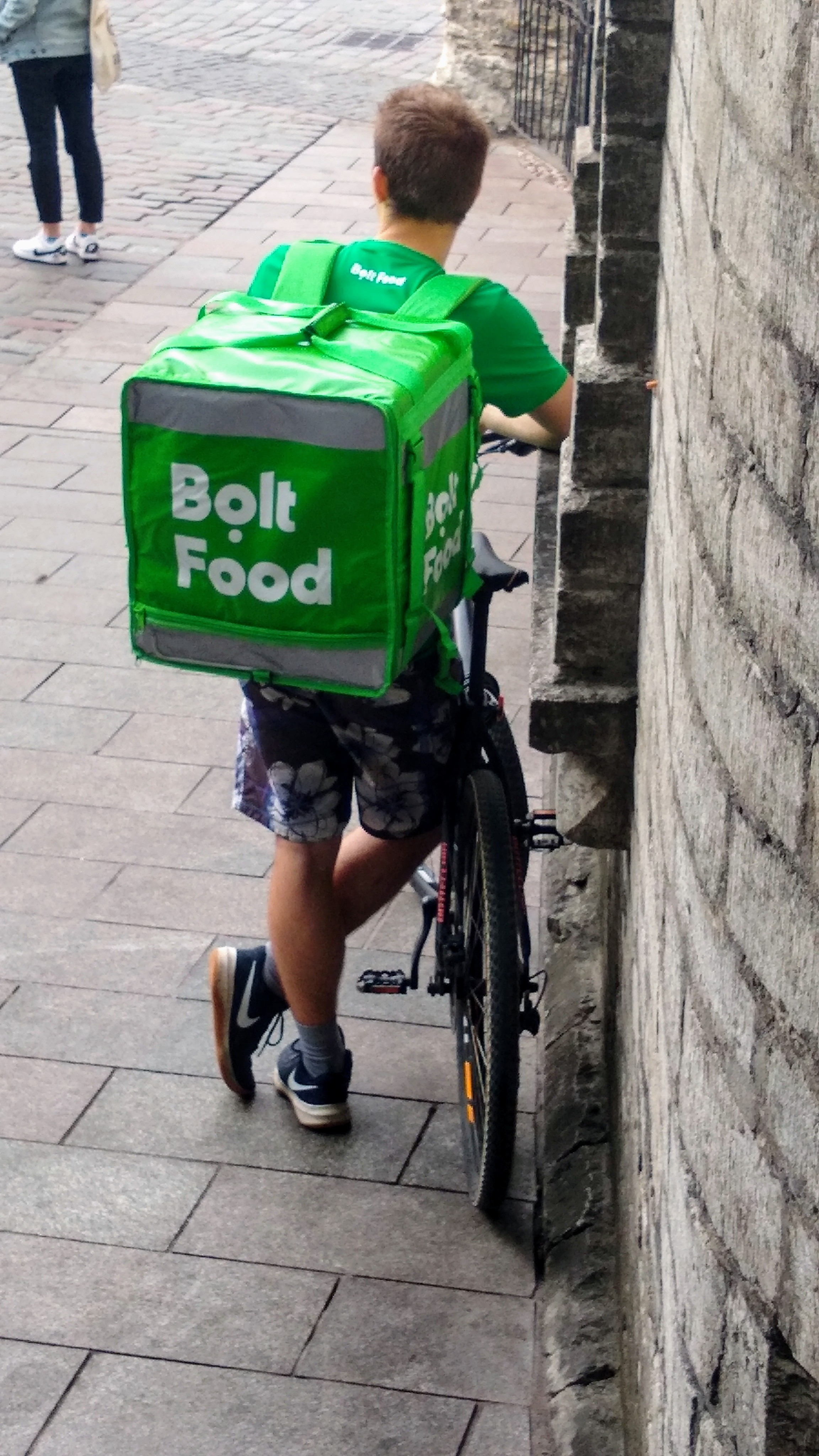 Food carrier in Tallinn, Estonia